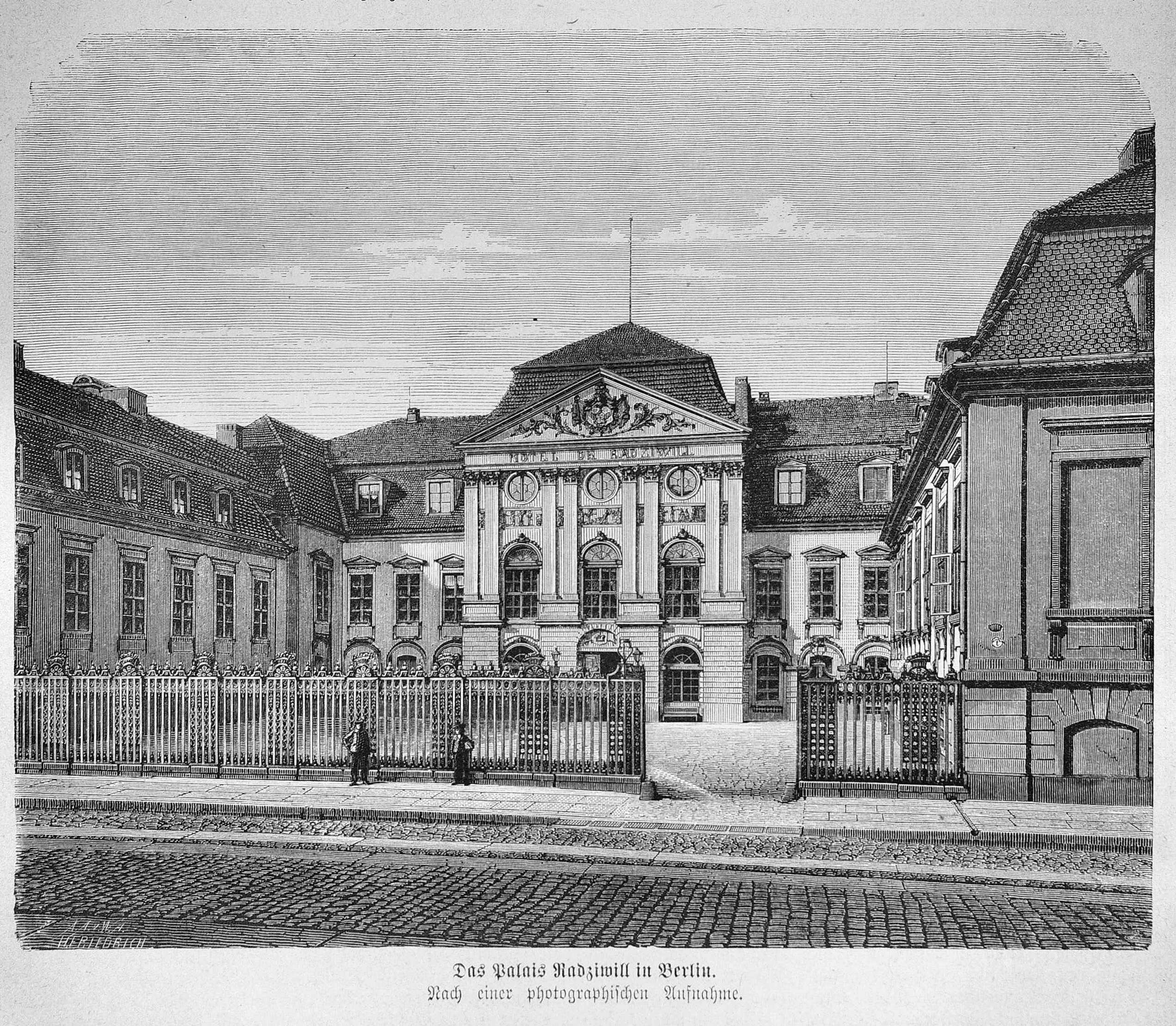 caption: "Das Palais Radziwill in Berlin. Nach einer photographischen Aufnahme."